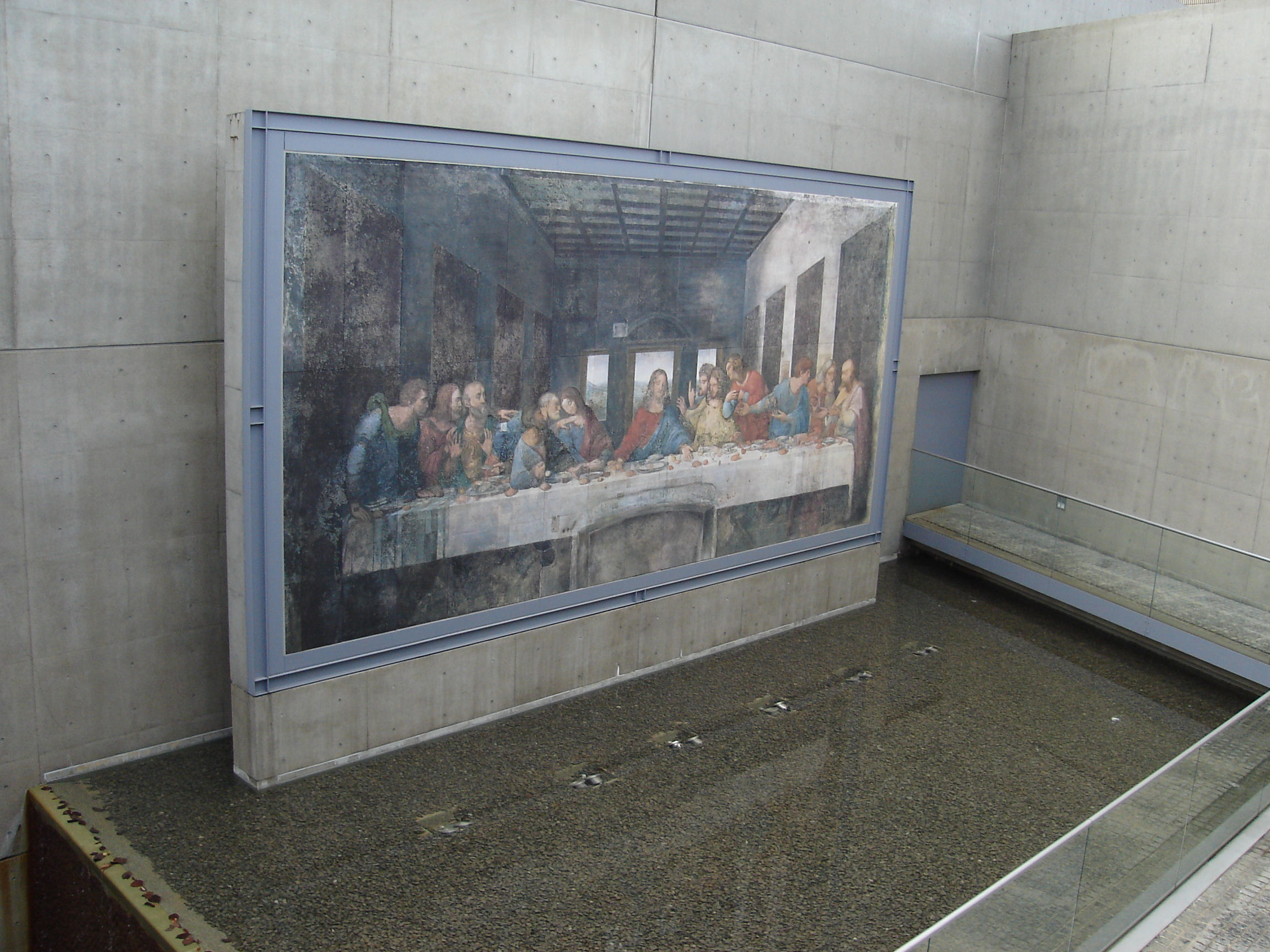 Porcelain panel painting of "Last Supper" (Leonardo da Vinci) in Garden of fine art , kyoto